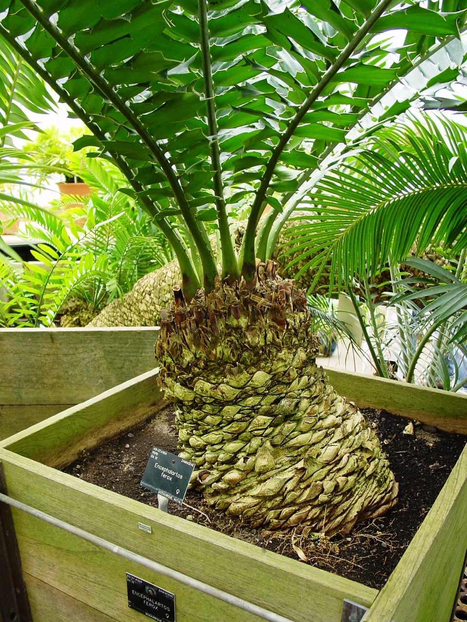 trunk, Kew Gardens 2006